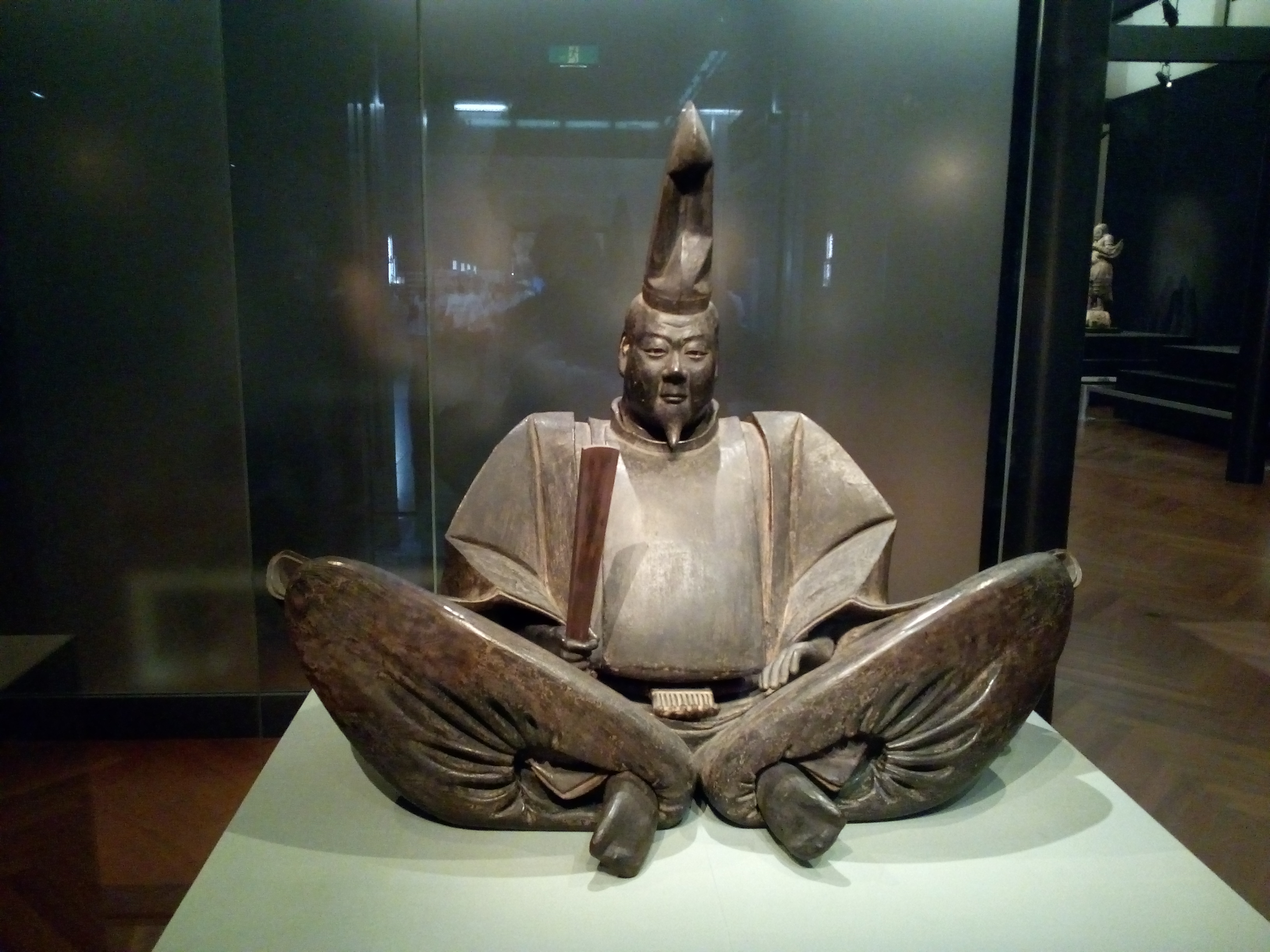 Seated Portrait of Minamoto no Yoritomo (Presumed). Kamakura Period, 13th-14th century. Important Cultural Property. Tokyo National Museum.